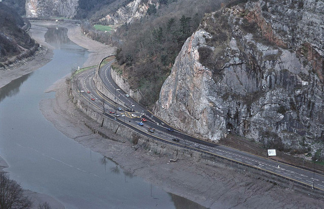 Avon Gorge Looking down the gorge from the Clifton Suspension Bridge. The A4 can be seen running alongside the river, with the A4176, Bridge Valley Road, leading up out of the gorge to Clifton Down.